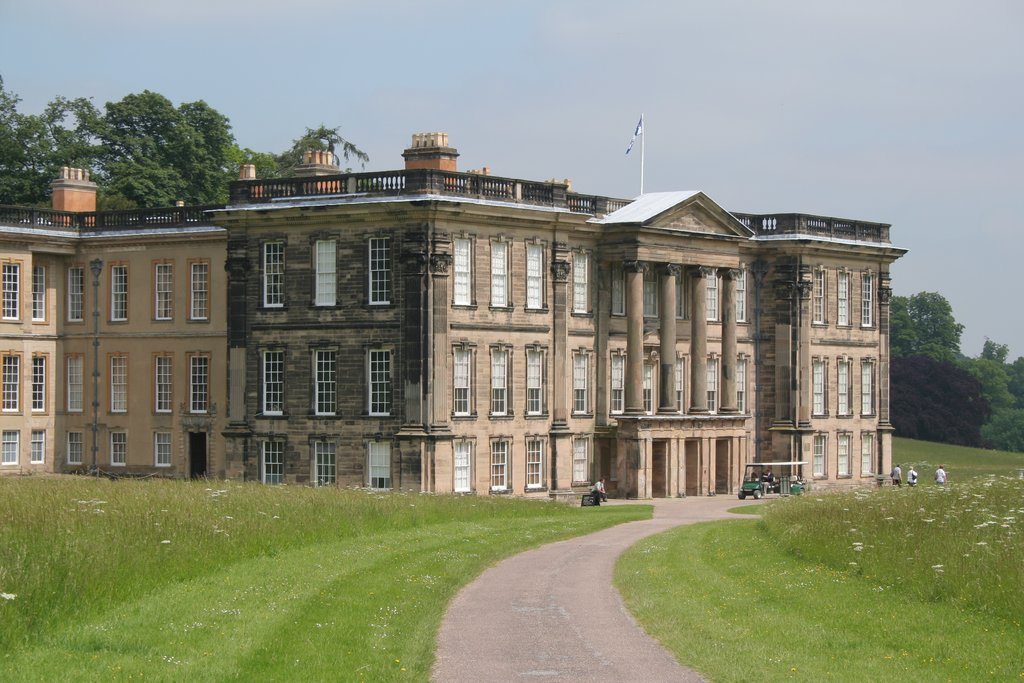 Calke Abbey